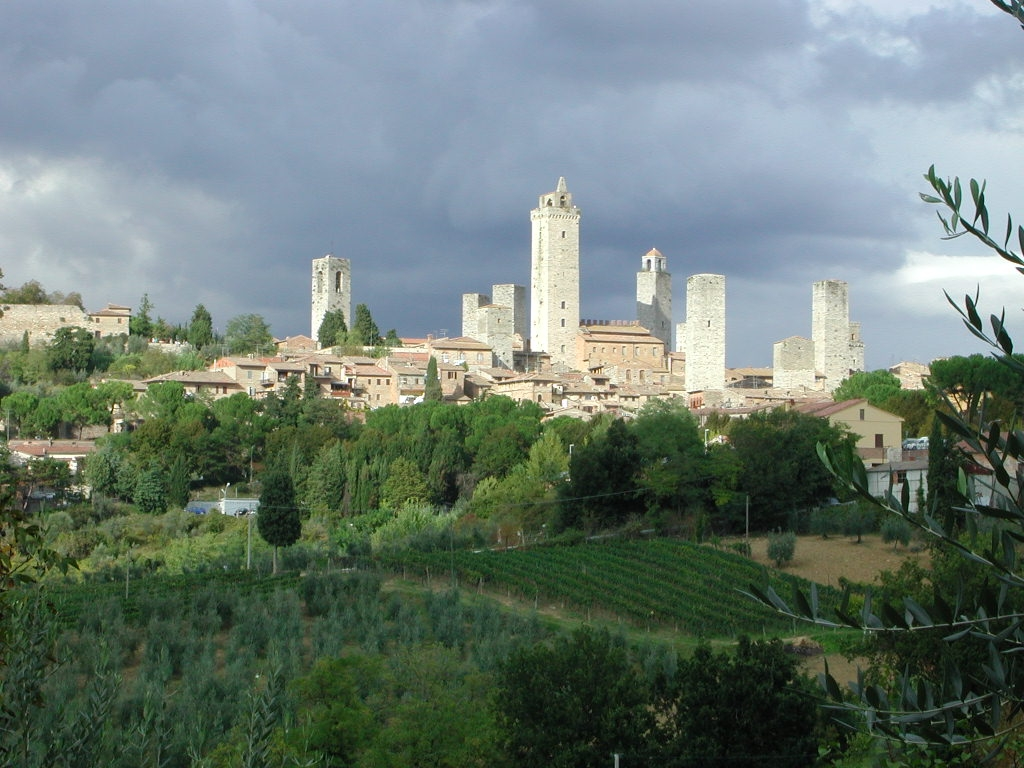 It shows the view at the city of San Gimignano. Source: photo uploaded by User:RicciSpeziari. Photographer: Basilio Speziari